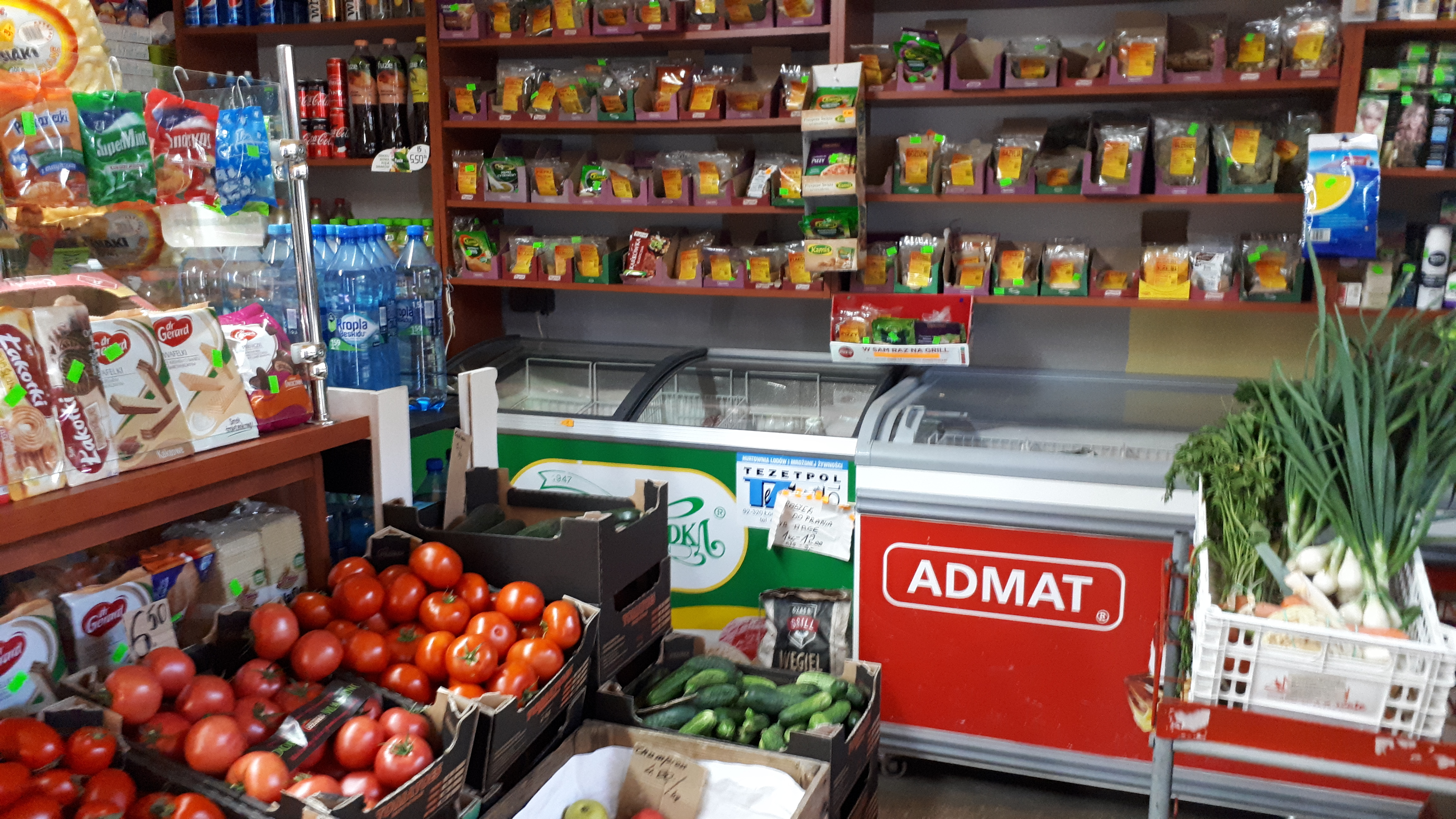 Grocery store in Lodz, Poland